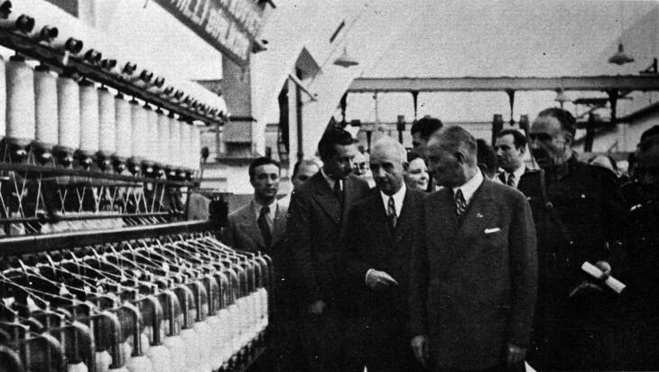 Kemal Atatürk and İsmet İnönü at the Nazilli Cotton Factory. Kemal Atatürk (or alternatively written as Kamâl Atatürk, Mustafa Kemal Pasha until 1934, commonly referred to as Mustafa Kemal Atatürk; 1881 – 10 November 1938) was a Turkish field marshal, revolutionary statesman, author, and the founding father of the Republic of Turkey, serving as its first President from 1923 until his death in 1938. He undertook sweeping progressive reforms, which modernized Turkey into a secular, industrial nation. Ideologically a secularist and nationalist, his policies and theories became known as Kemalism. Due to his military and political accomplishments, Atatürk is regarded as one of the most important political leaders of the 20th century.